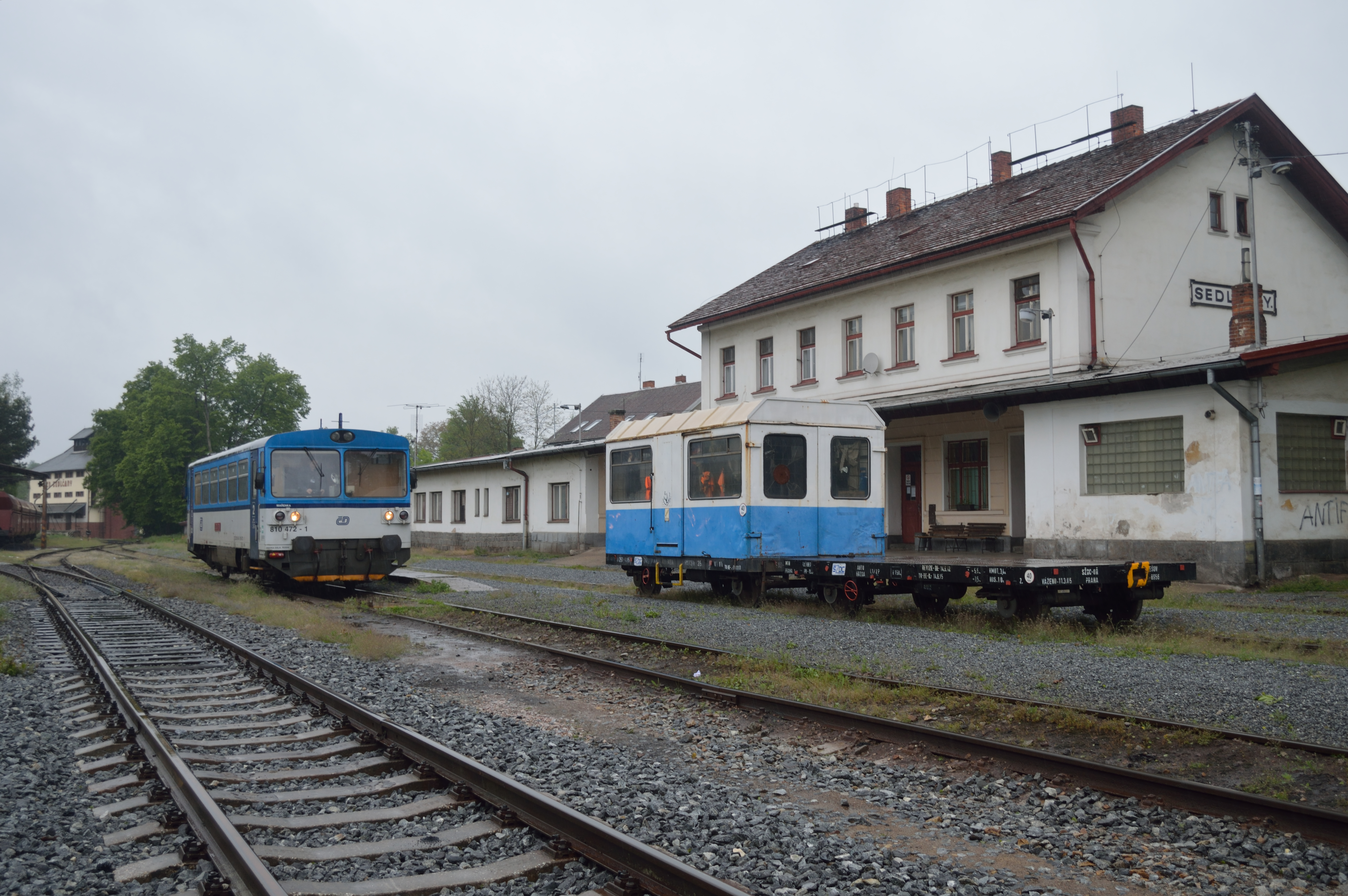 Final branch covered on my last full day in the Czech Republic - 17 May 2014. The branch was from Olbramovice to Sedlčany some 16kms in length. With a 9 minute turnaround time and very wet conditions this is the best of a bunch of photos taken at the branch terminus. As often is the case, will be probably be a once in a lifetime visit. 810.472 was the unit in charge, train Os26121, 18:04 Sedlčany to Olbramovice.